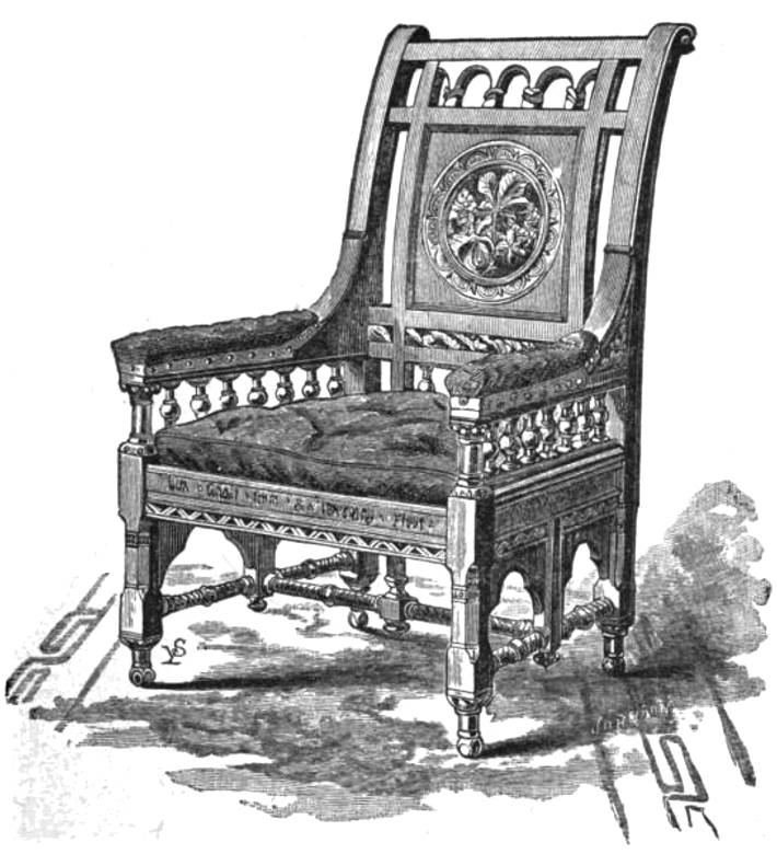 Image of a chair, original caption: "The chestnut arm-chair / the gift of the children of Cambridge." The chair was presented to American poet Henry Wadsworth Longfellow as a gift. It was made from wood from a chestnut tree by the home of Dexter Pratt, local blacksmith, who had been made famous, along with the tree, in Longfellow's poem "The Village Blacksmith". The chair is still in the collection of the Longfellow National Historic Site in Cambridge, Massachusetts.